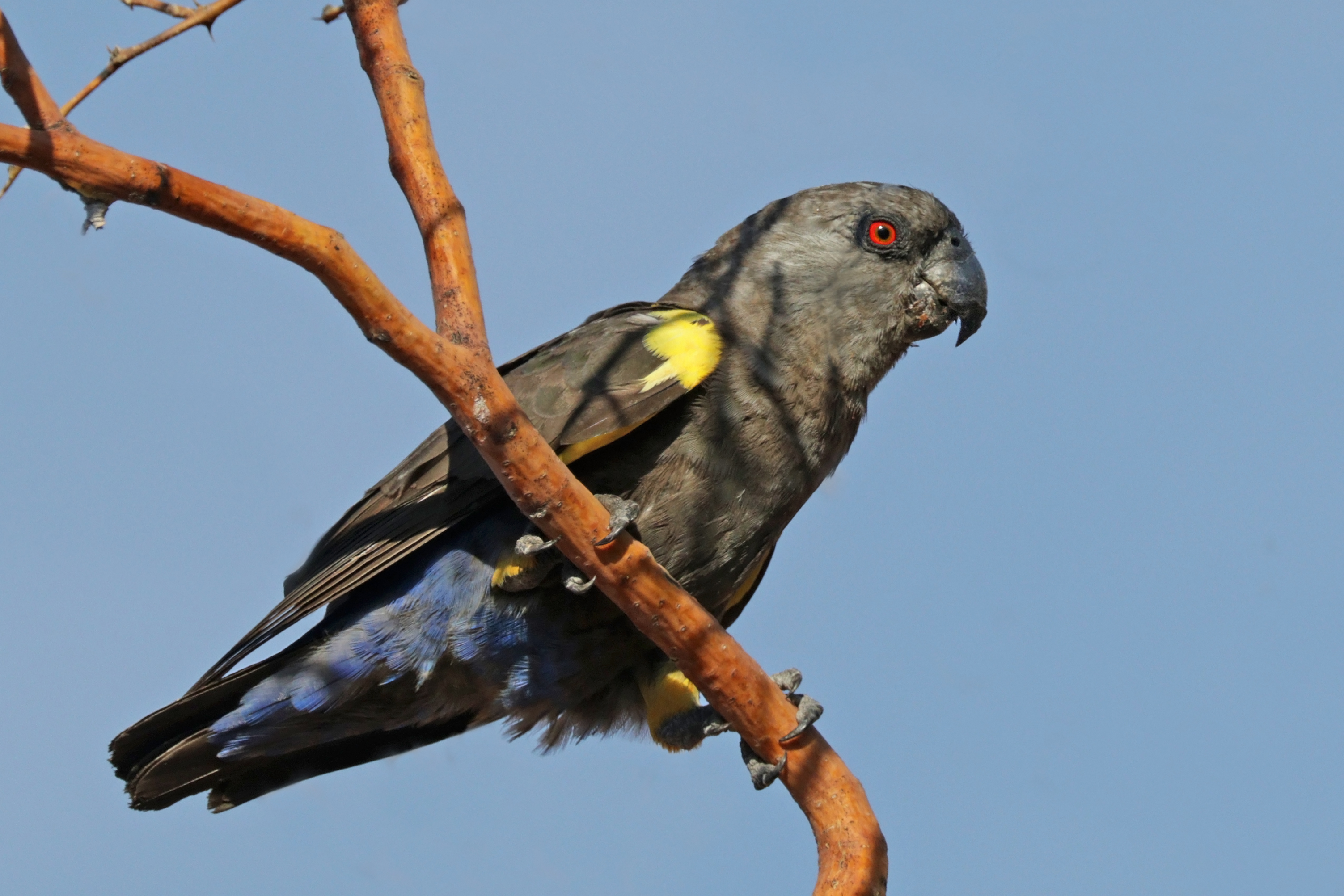 Rüppells parrot (Poicephalus rueppellii) female, Damaraland, Namibia